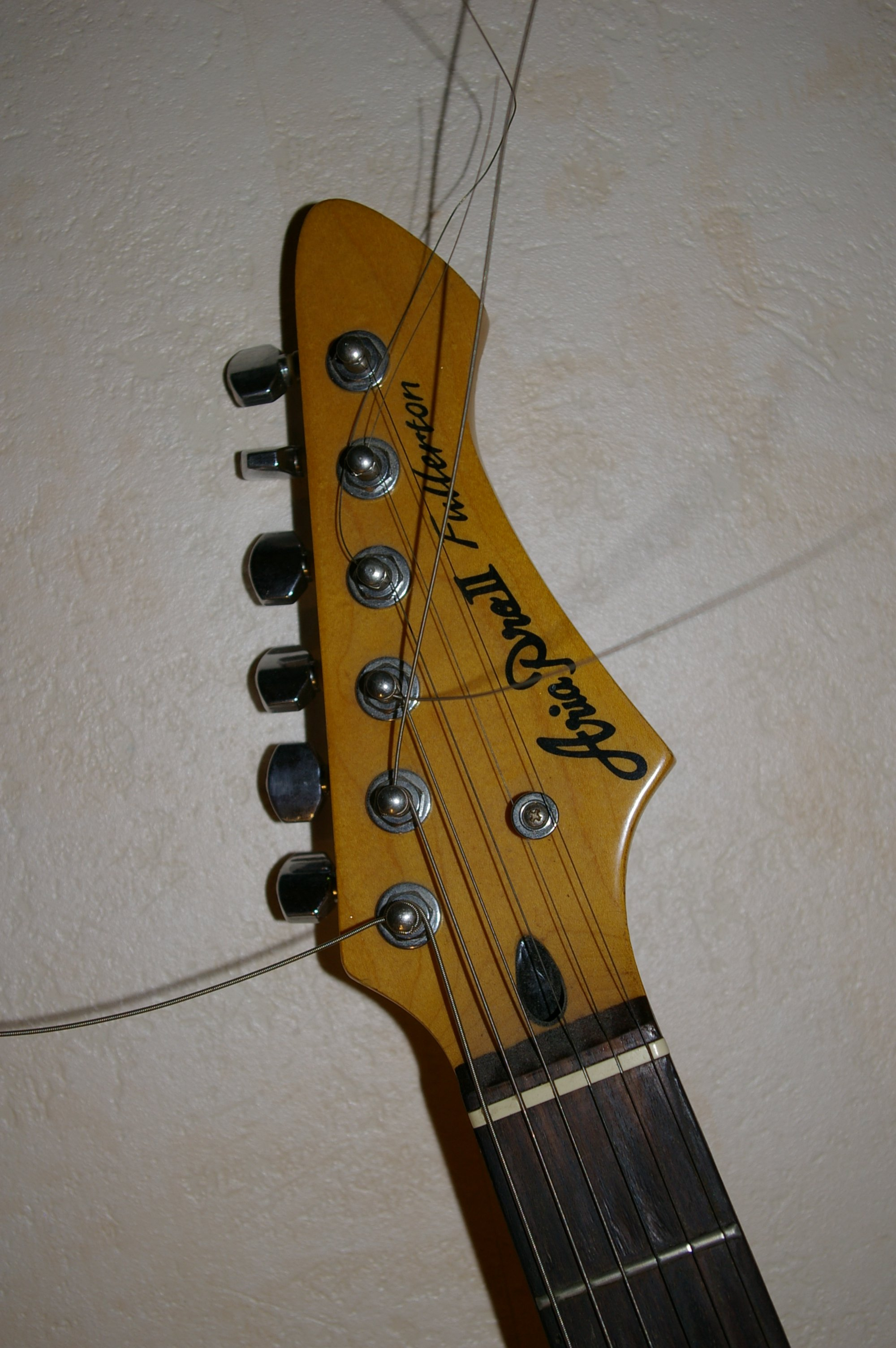 Aria Pro II eletric guitar